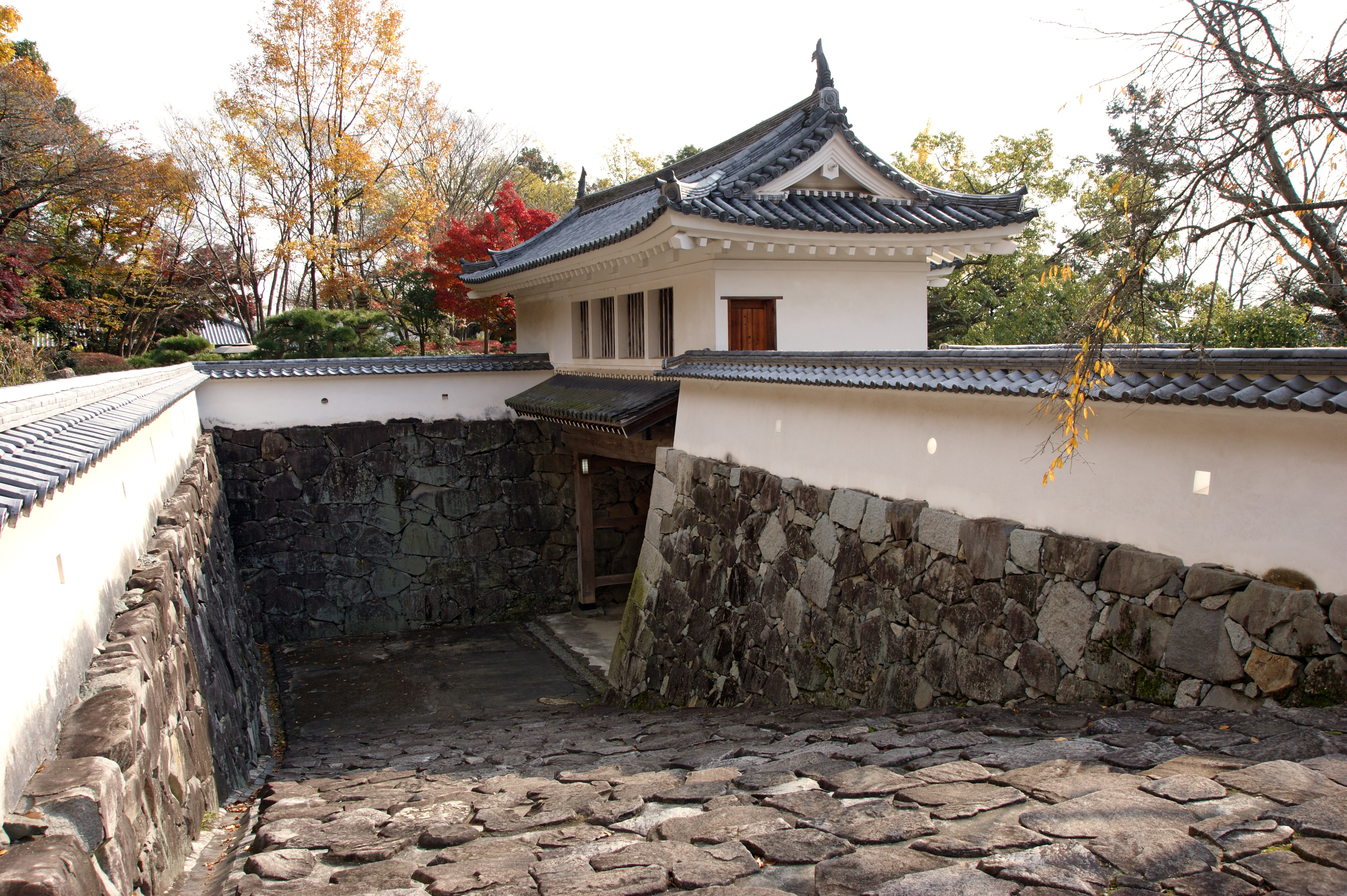 Tatsuno castle, Tatsuno, Hyogo prefecture, Japan